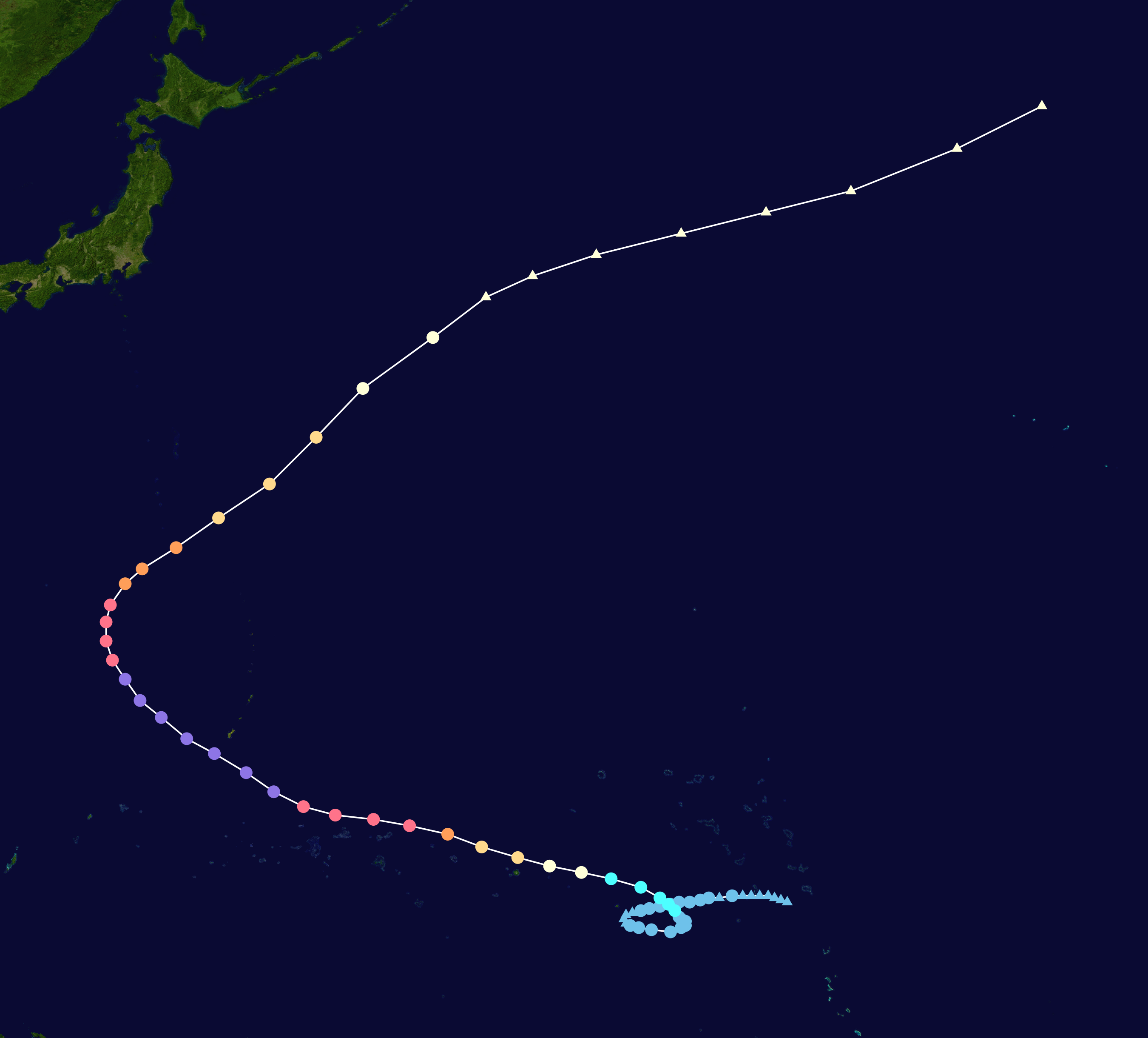 Typhoon Yuri 1991 track. Uses the color scheme from the Saffir-Simpson Hurricane Scale.